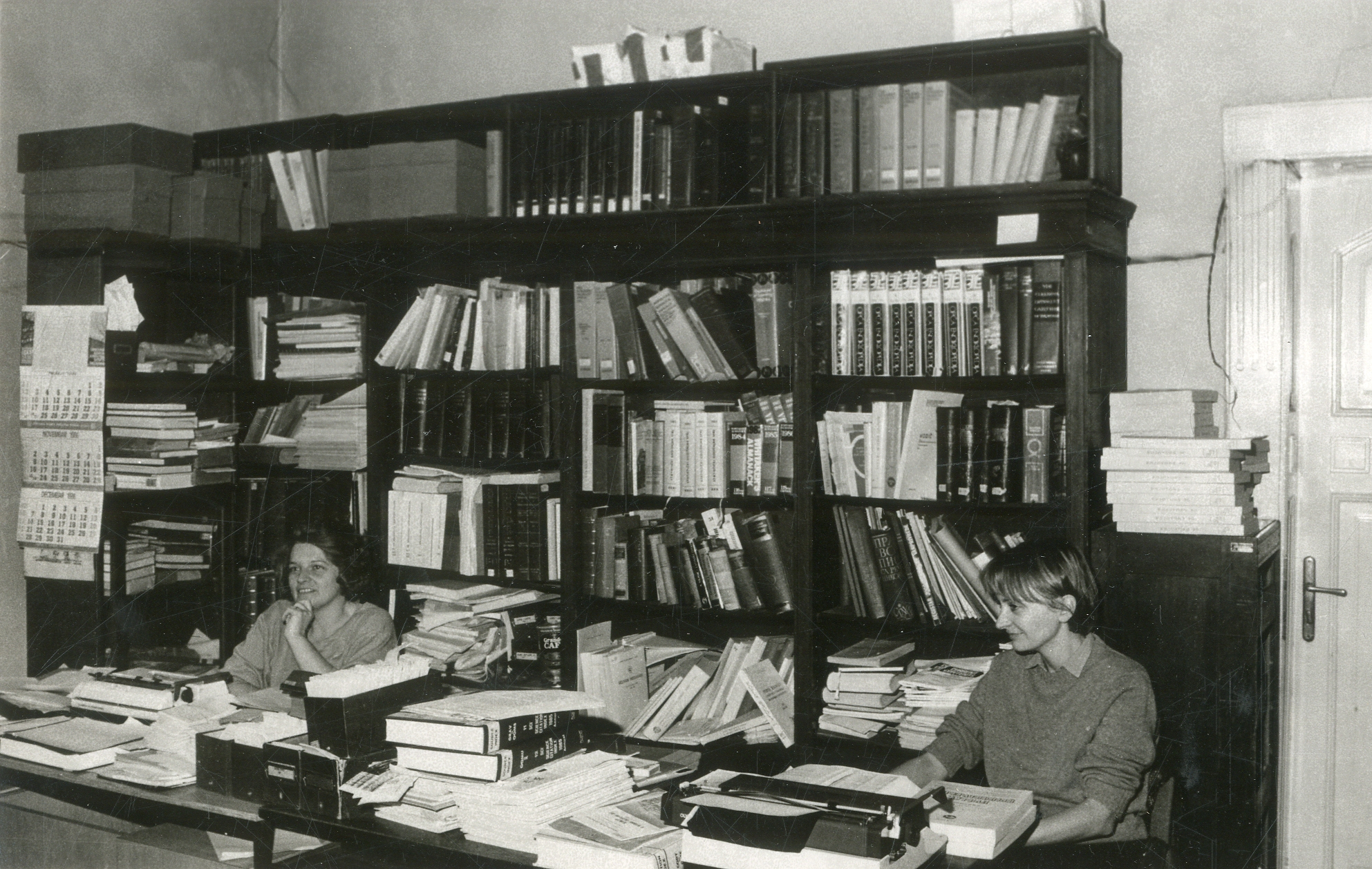 Stela Filipi Matutinović i Dubravka Kapa, University Library "Svetozar Marković", Belgrade, Serbia. Srpski (latinica): Stela Filipi Matutinović i Dubravka Kapa, Univerzitetska biblioteka "Svetozar Marković", Beograd, Srbija.